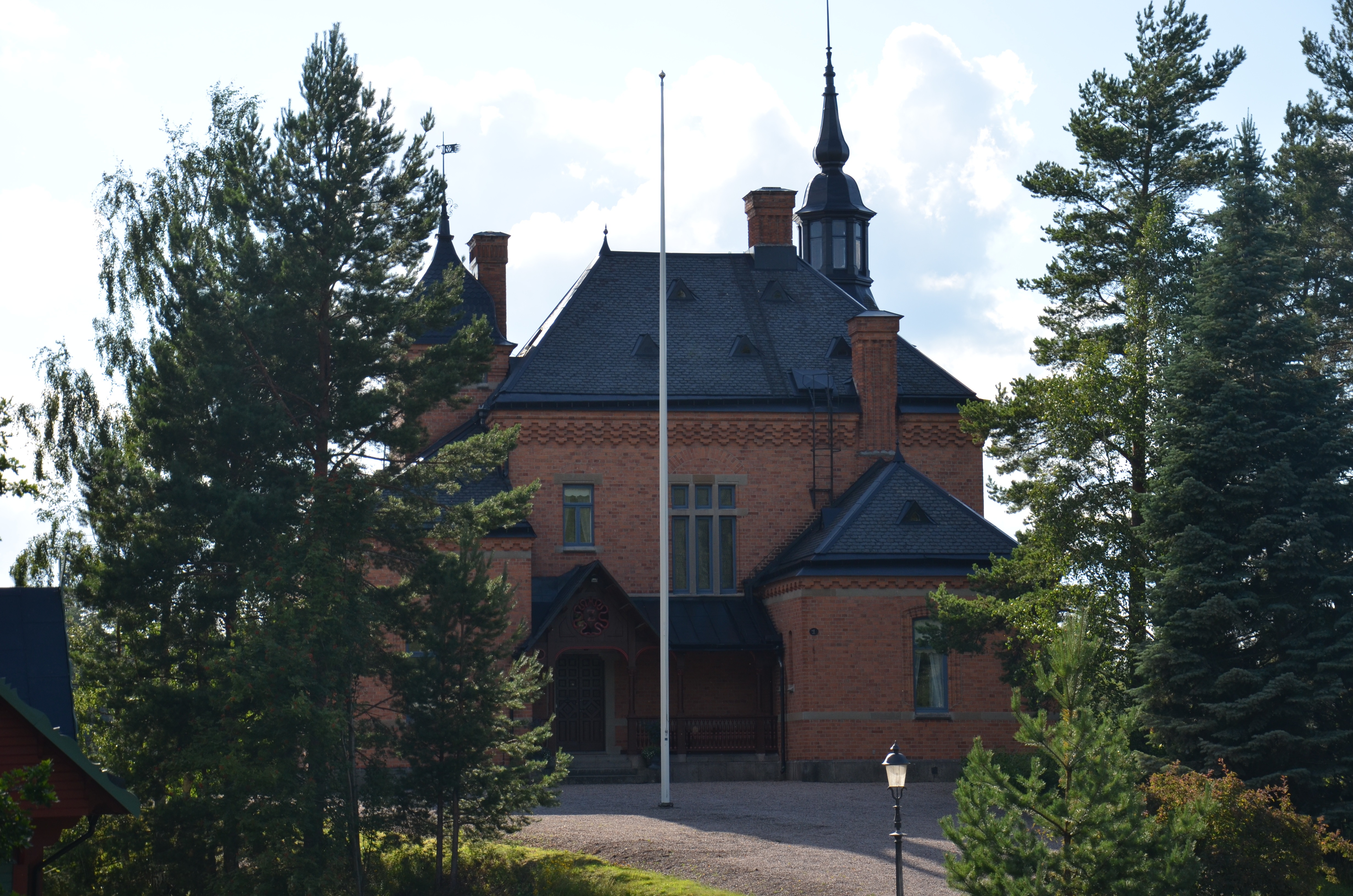 Villa Ulvaklev in Ängelsberg, Sweden, drafted by Isak Gustaf Clason